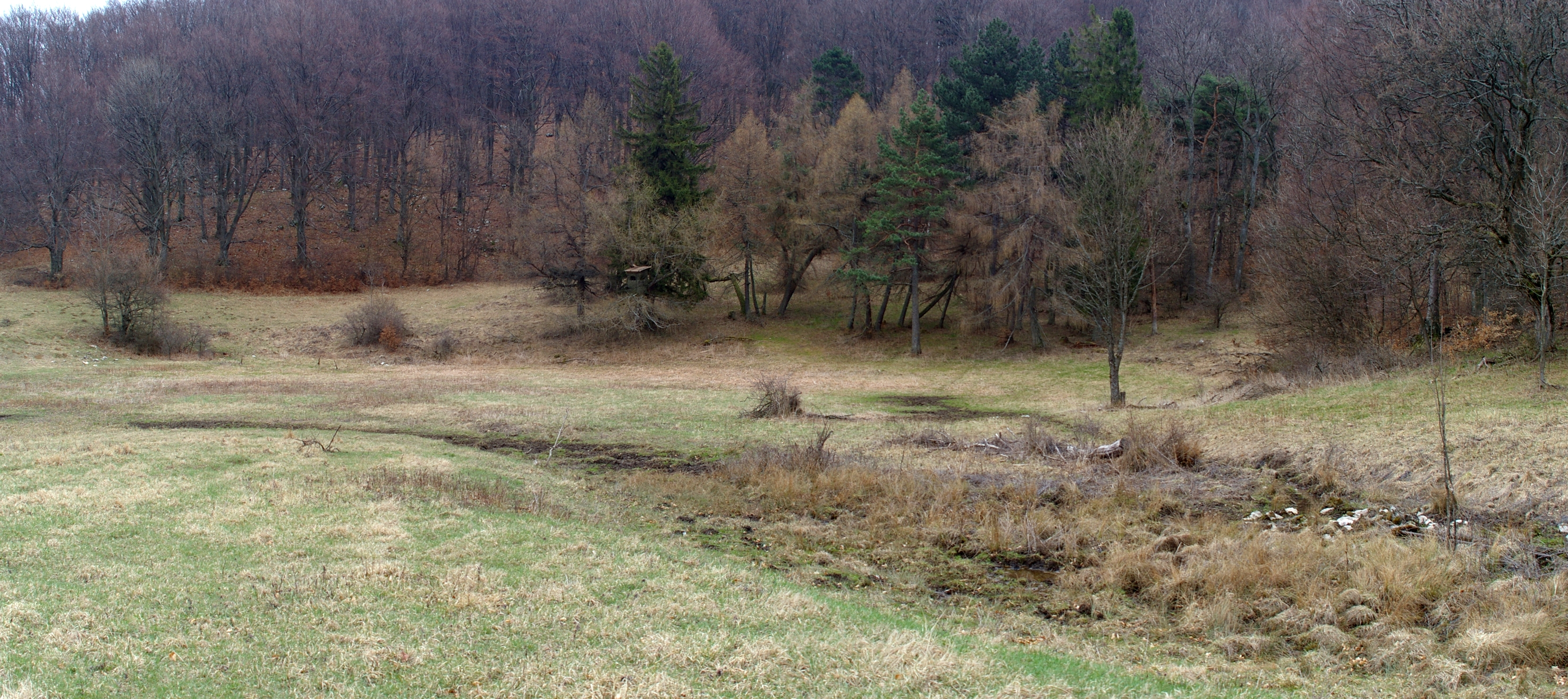 Former Lučanské lake (Horní vrch)